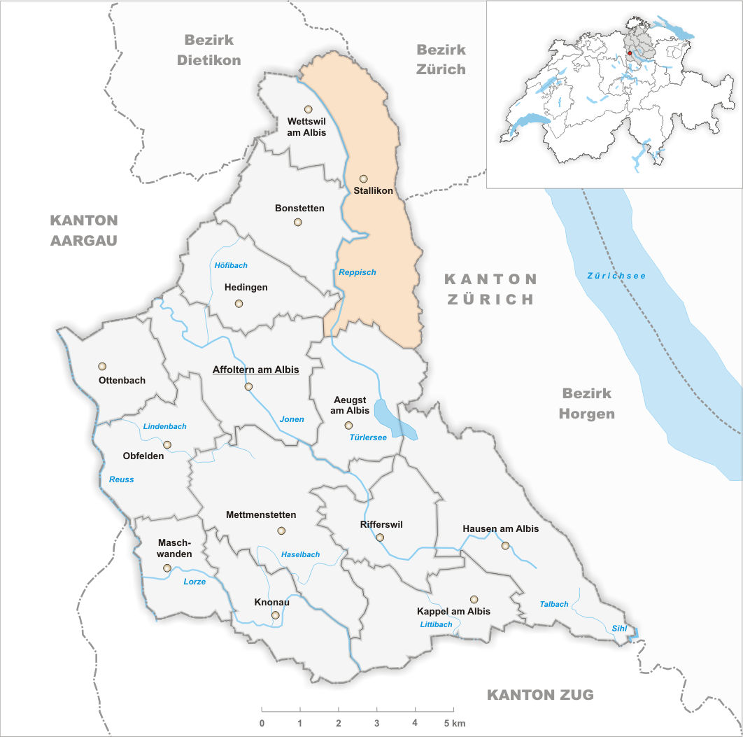 Municipality Stallikon